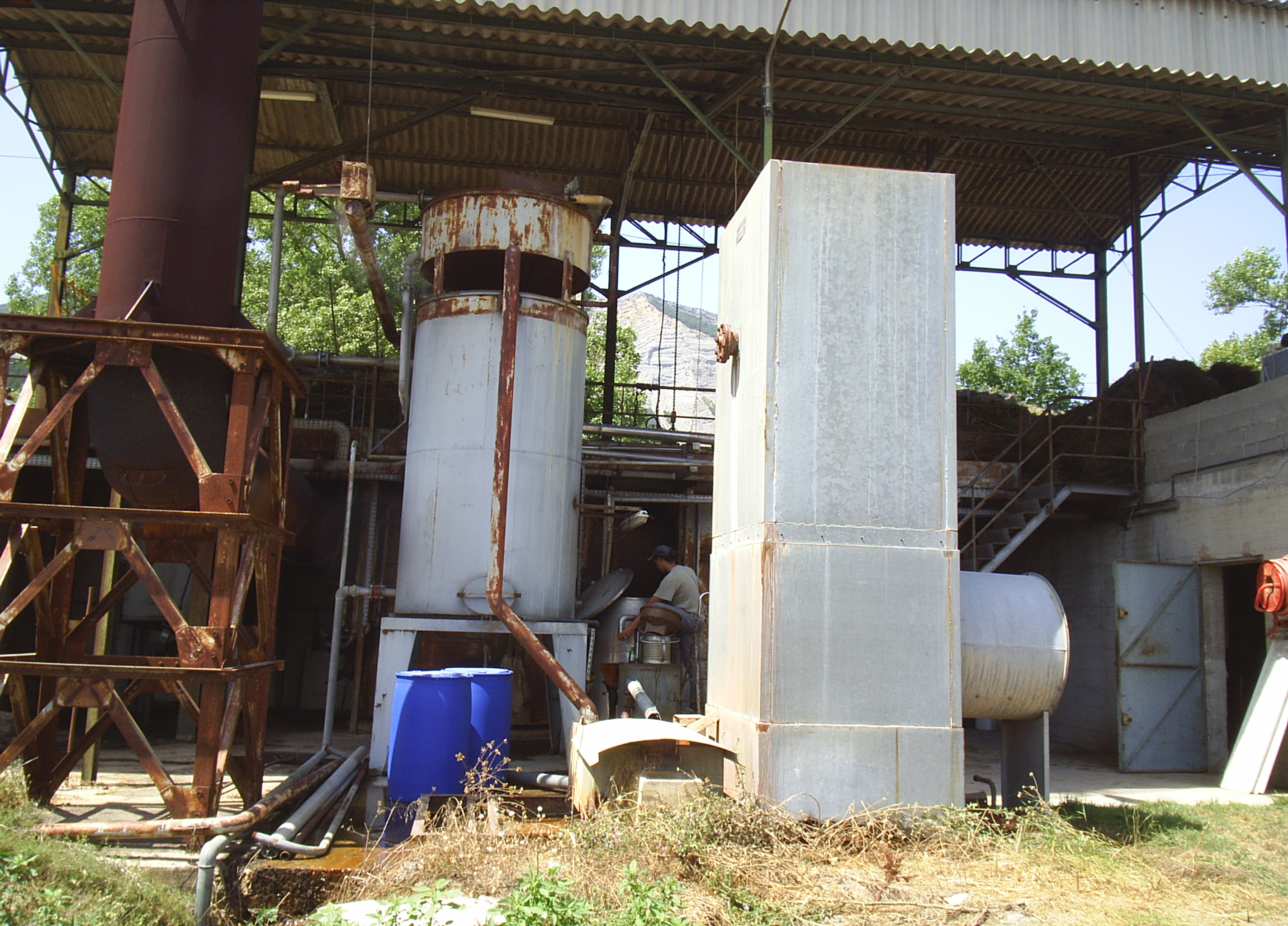 Lavender pressing process. There are small lavender farmers in the south-east of France who form a cooperative to be able to process the lavender. They establish small primitive lavender processing installations. The crop is loaded in stainless stail drums, and a cement-filled tractor tyre is put on top. The weight is exactly prepared to the inner-diameter of the drum. The drum is hermetically sealed with a heavy lid. The drum is heated by an oven from the outside, the oven is fed by plants that are already processed. Then hot water is pressed into the drum creating heat and steam through which the oil is released from the plants. Oil and water are lead through pipes and collected in a drum at the top of which there is a simple filter. The oil is then ready to be bottled.